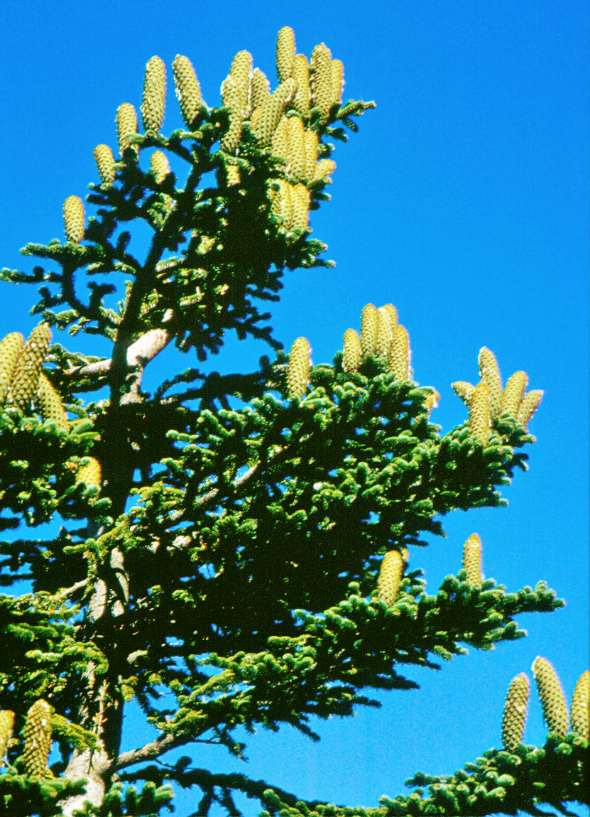 Abies nebrodensis foliage and cones, Castellana Sicula, Madonie, Sicily, 1600 m altitude.